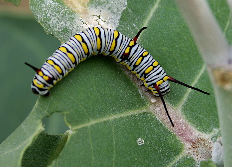 Plain Tiger Danaus chrysippus Caterpillar in Hyderabad , India.